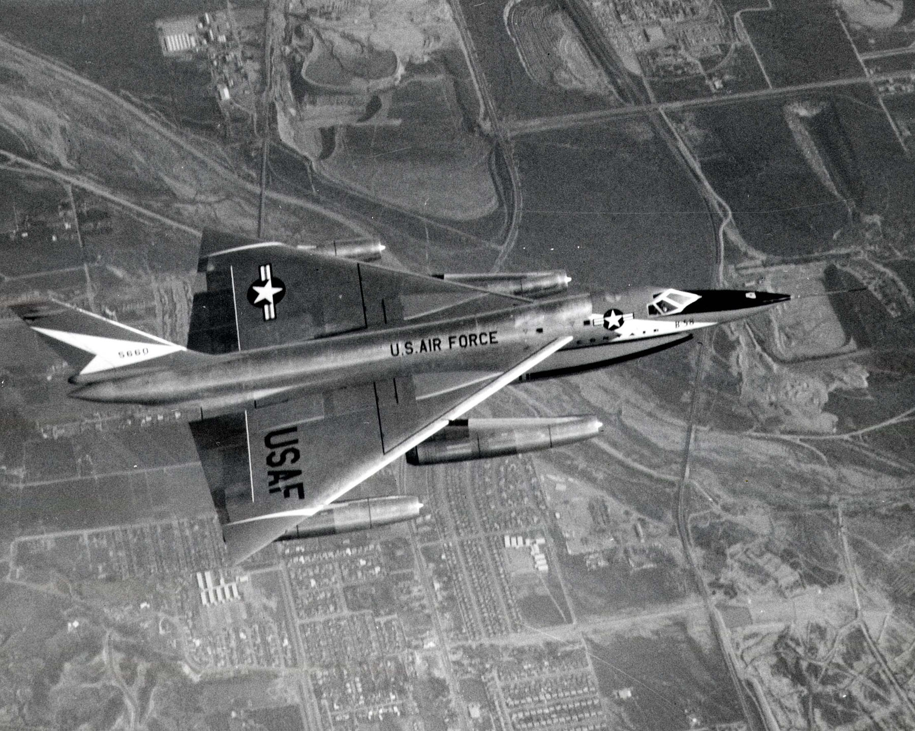 Convair XB-58 Hustler in flight (SN 55-0660)